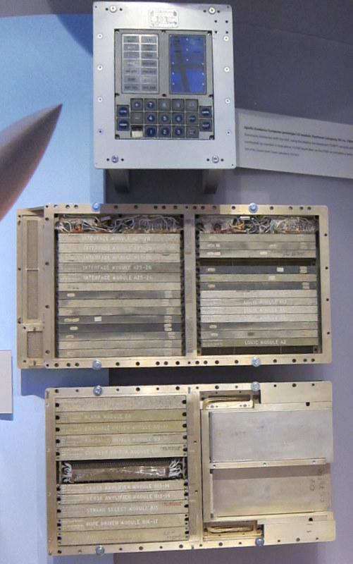 Apollo Guidance Computer with Display and Keyboard DSKY (above) on display at the Computer History Museum.